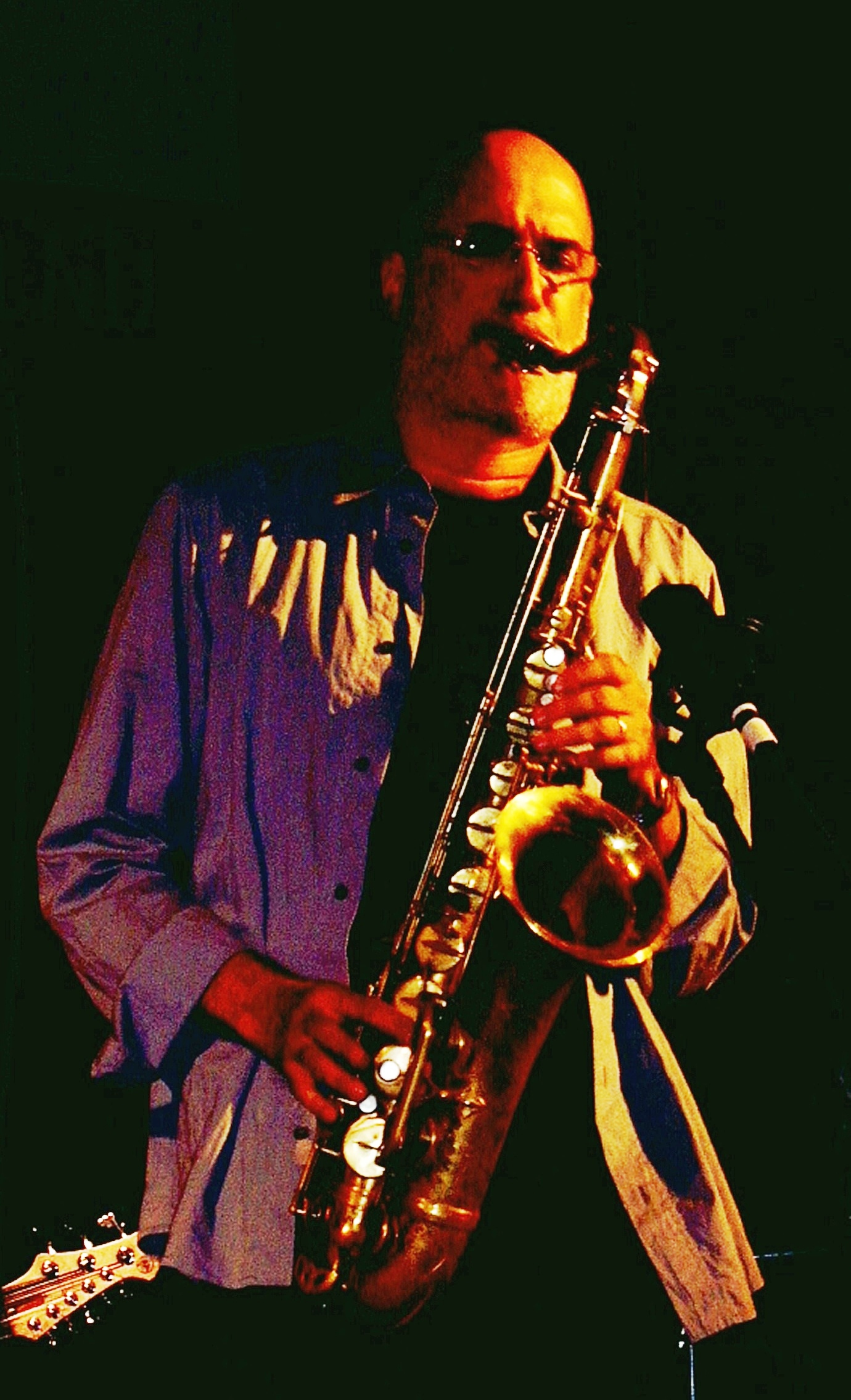 Michael Brecker at Jazz for Kerry benefit concert in New York City, July 2004